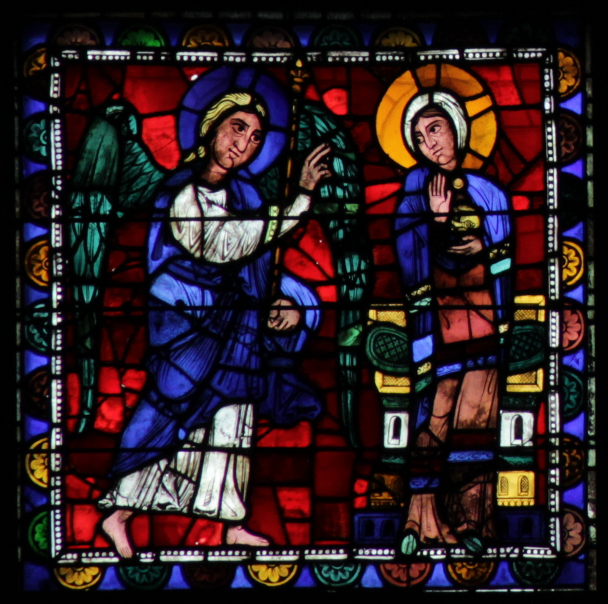 Annunciation